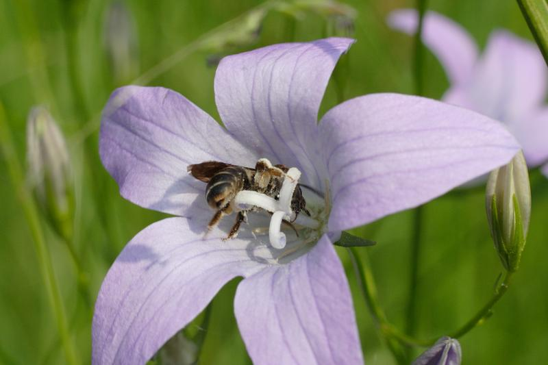 Andrena sp. collecting pollen from Campanula patula